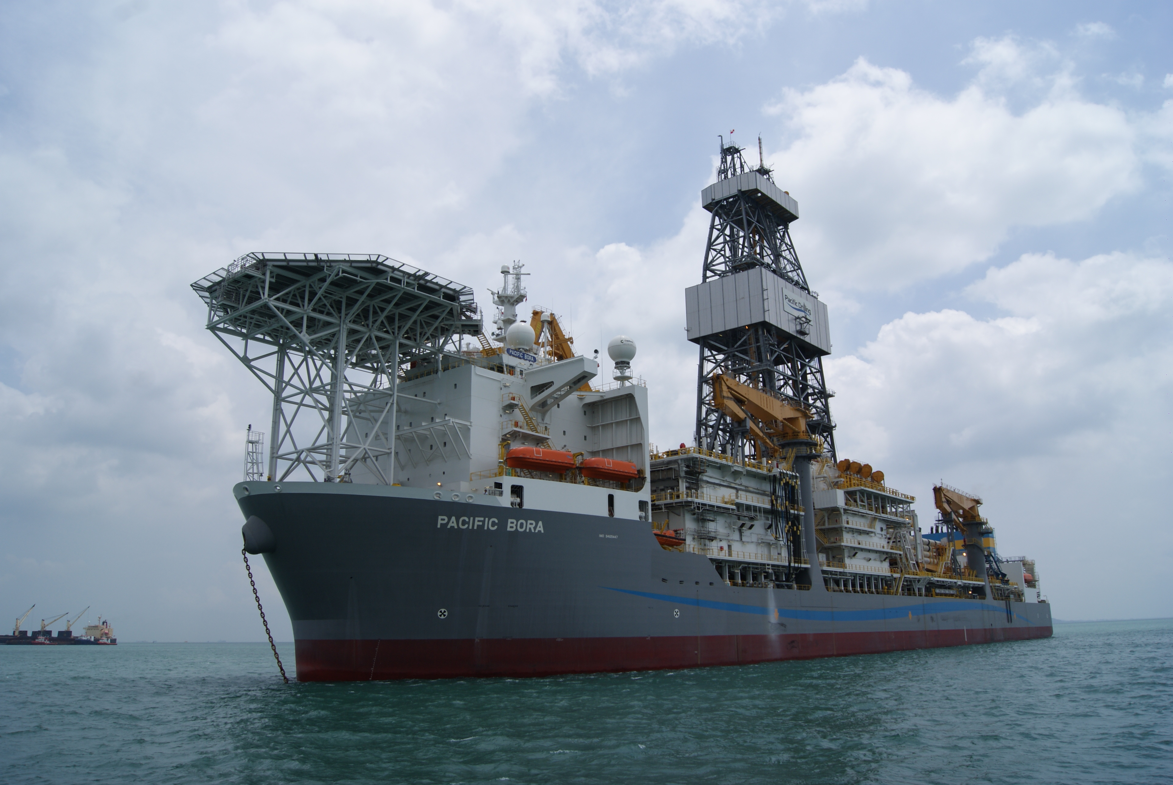 The Liberian flagged drillship Pacific Bora in Singapore waters.